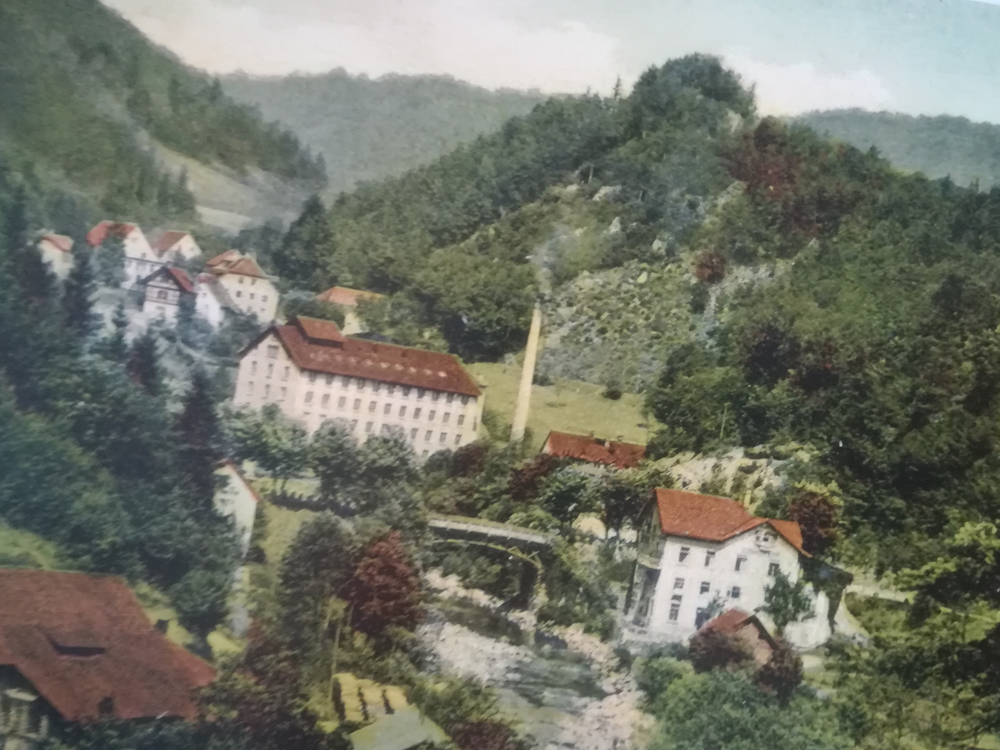 Fabrikgebäude in Tiefenstein um 1910